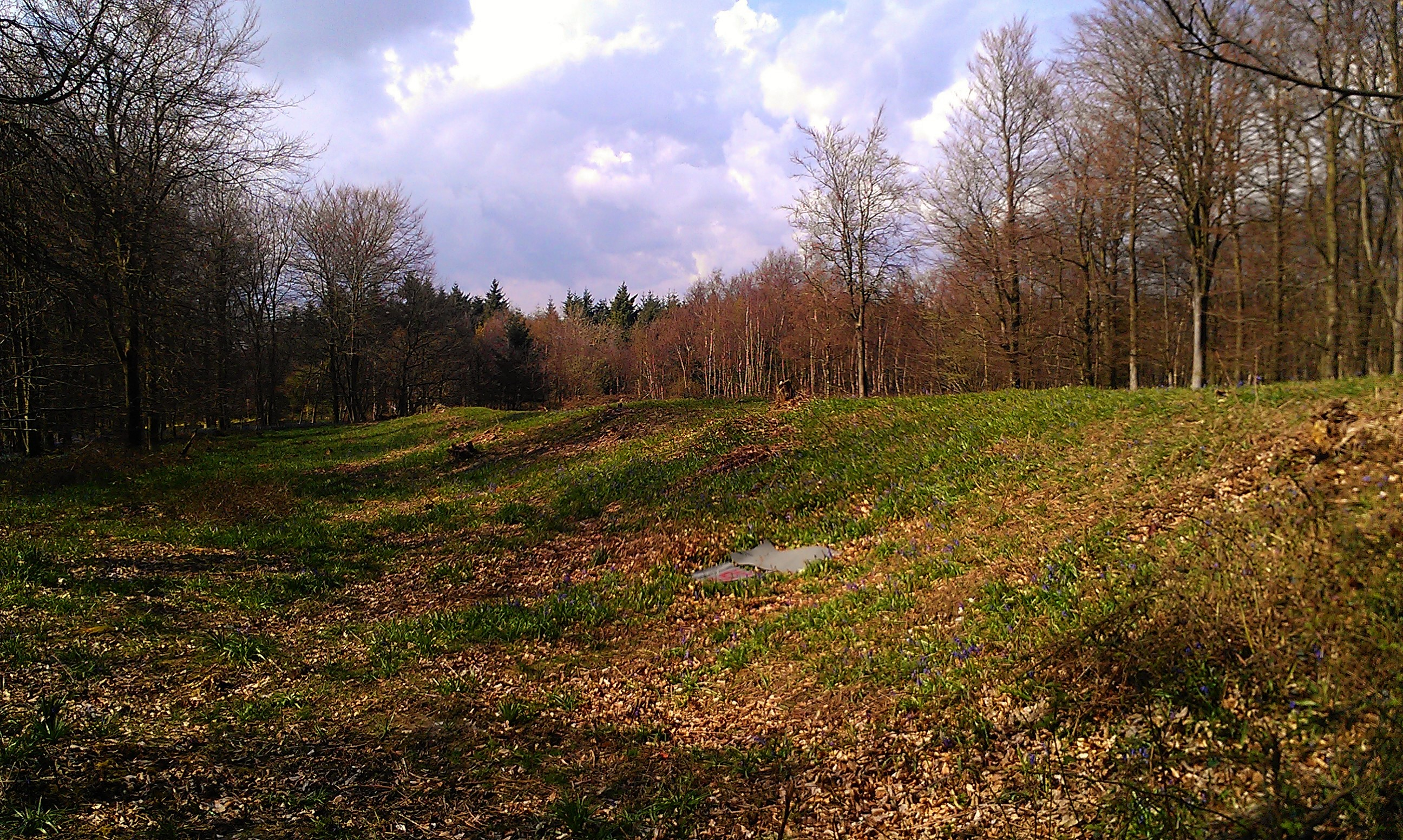 The Jackets Field long barrow in Kent as viewed from the southeast looking to the northwest.